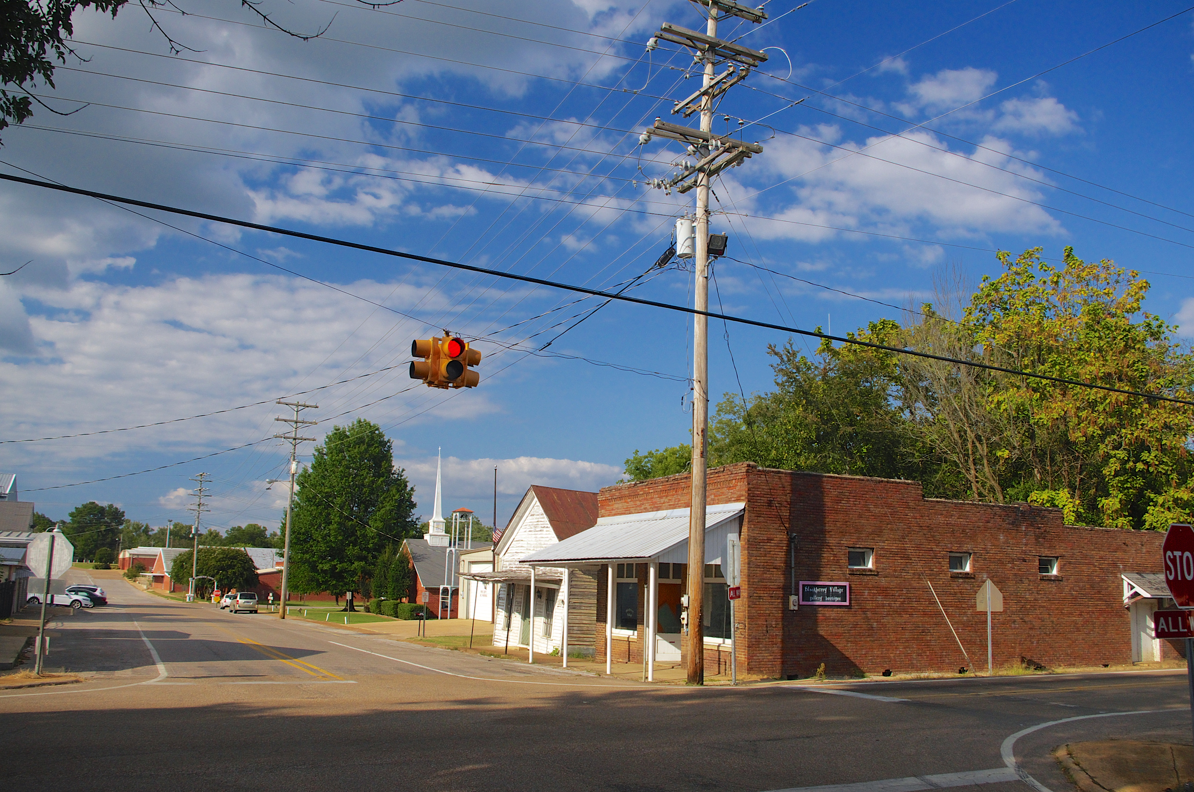 Buildings at the intersection of County Road 604 and Kossuth Road (Mississippi Highway 2) in Kossuth, Mississippi, United States.